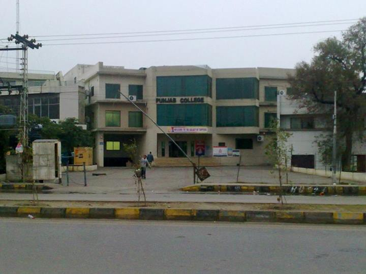 Punjab College Gujrat view from Grand Trunk Road, Gujrat.